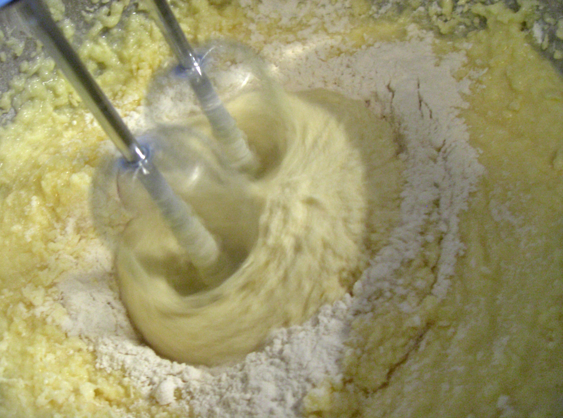 Flour is being beaten into a cake mixture by electric beaters.